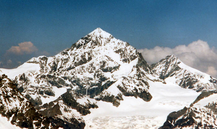 Photo of the Dent Blanche from the east